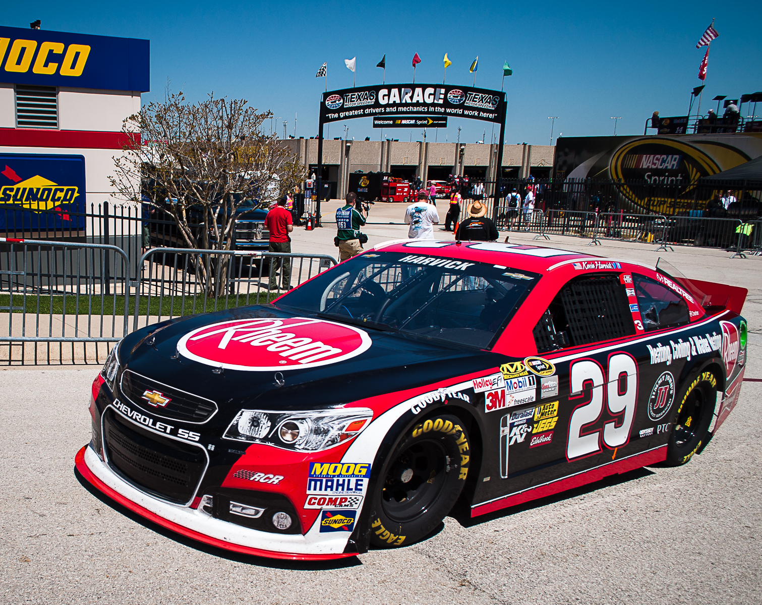 Harvick's 2013 Cup Car at Texas Motor Speedway on April 12, 2013